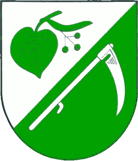 Coat of arms of the municipality Stoltebüll in Schleswig-Holstein, Germany.